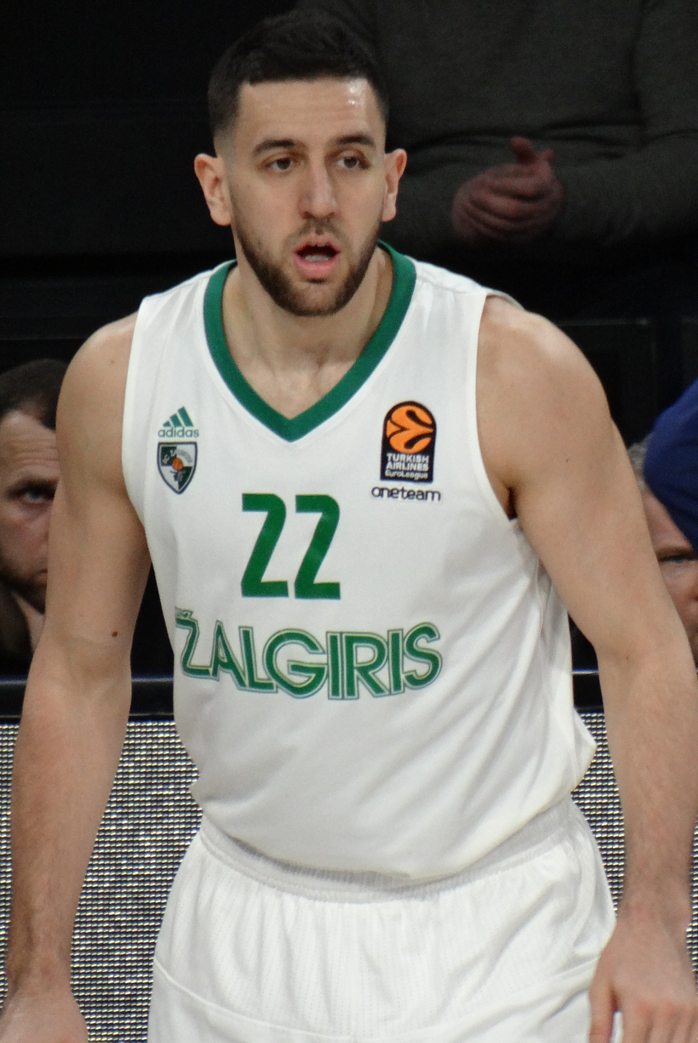 Vasilije Micić 22 BC Žalgiris EuroLeague 20180223